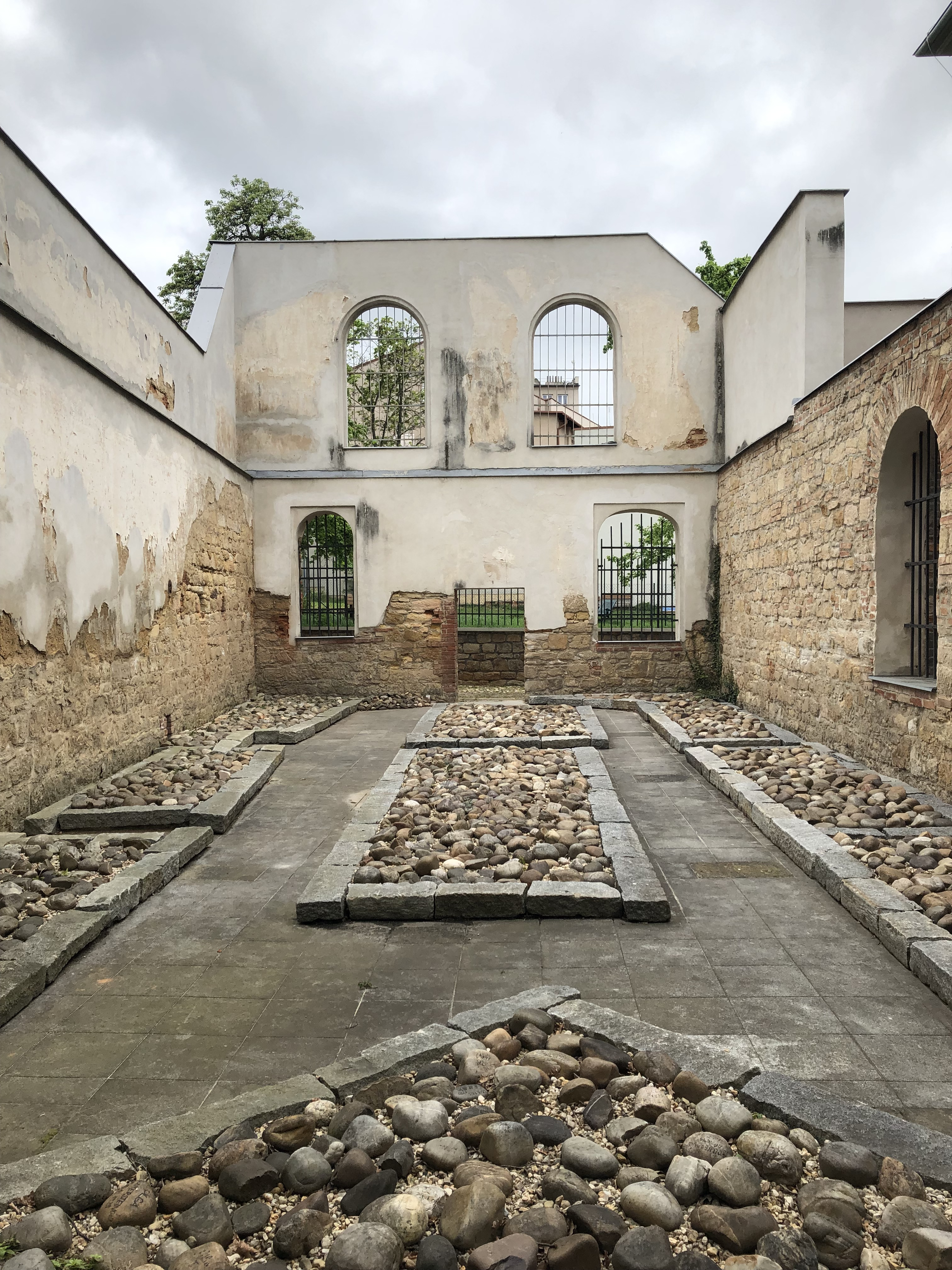 Old Synagogue Pilsen: Holocaust Memorial: view to the west.